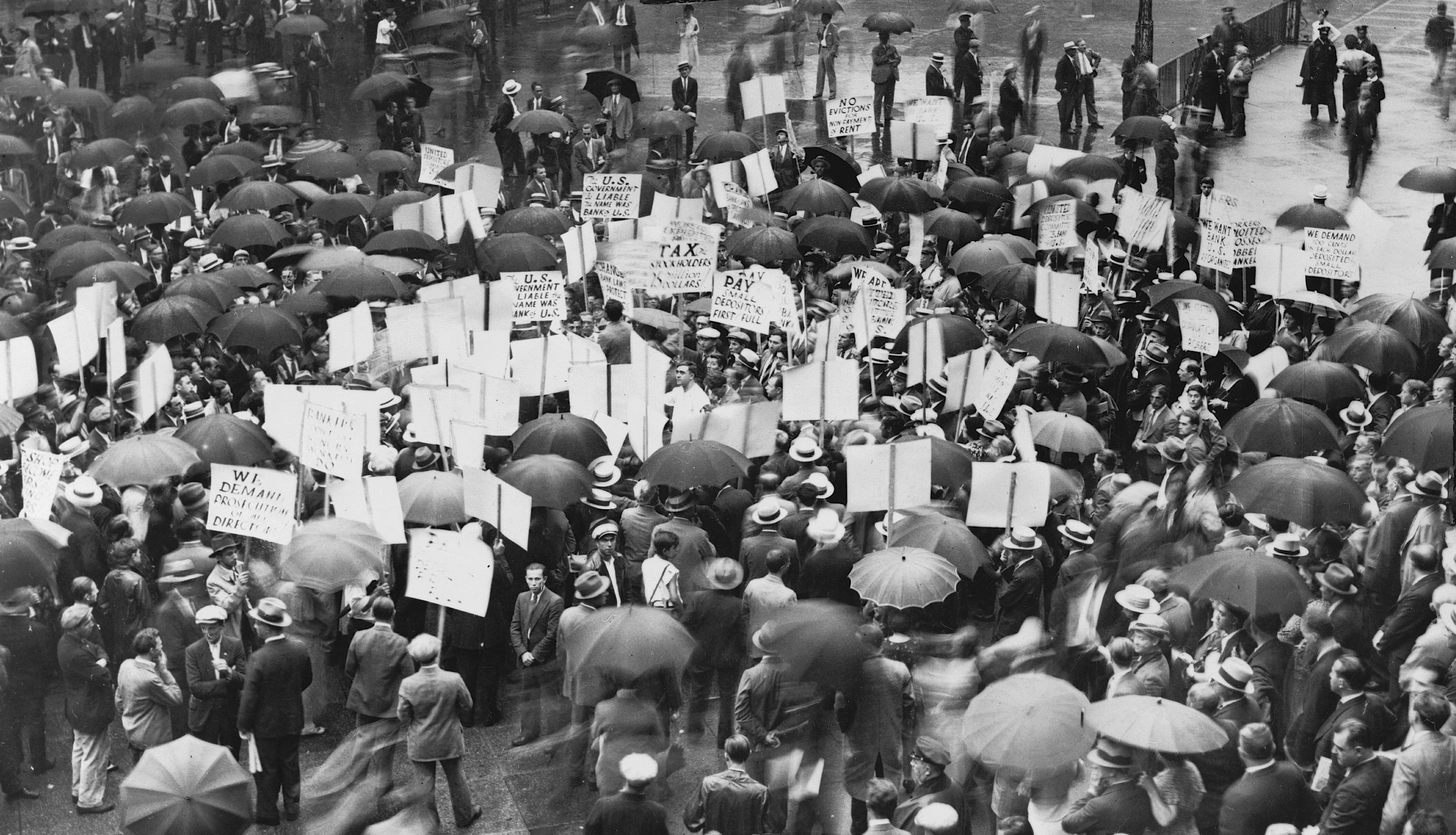 Crowd of depositors gather in the rain outside Bank of United States after its failure.